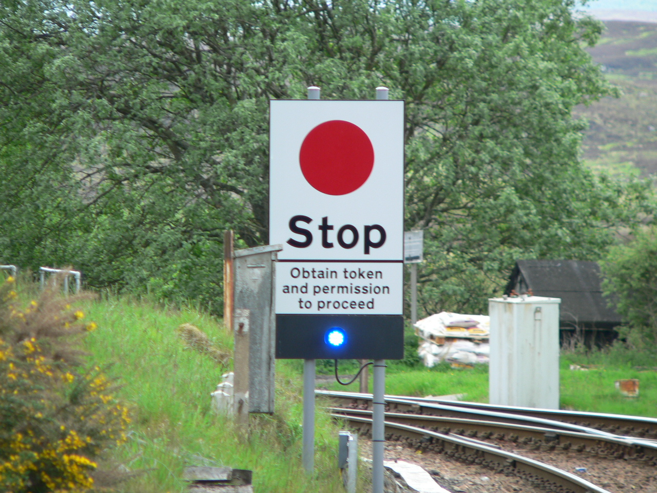 The sign informing train drivers that they need to Stop and obtain the radio token and permission to proceed on the single line section ahead. This is at the southern end of Rannoch railway station on the West Highland Line in central Scotland.